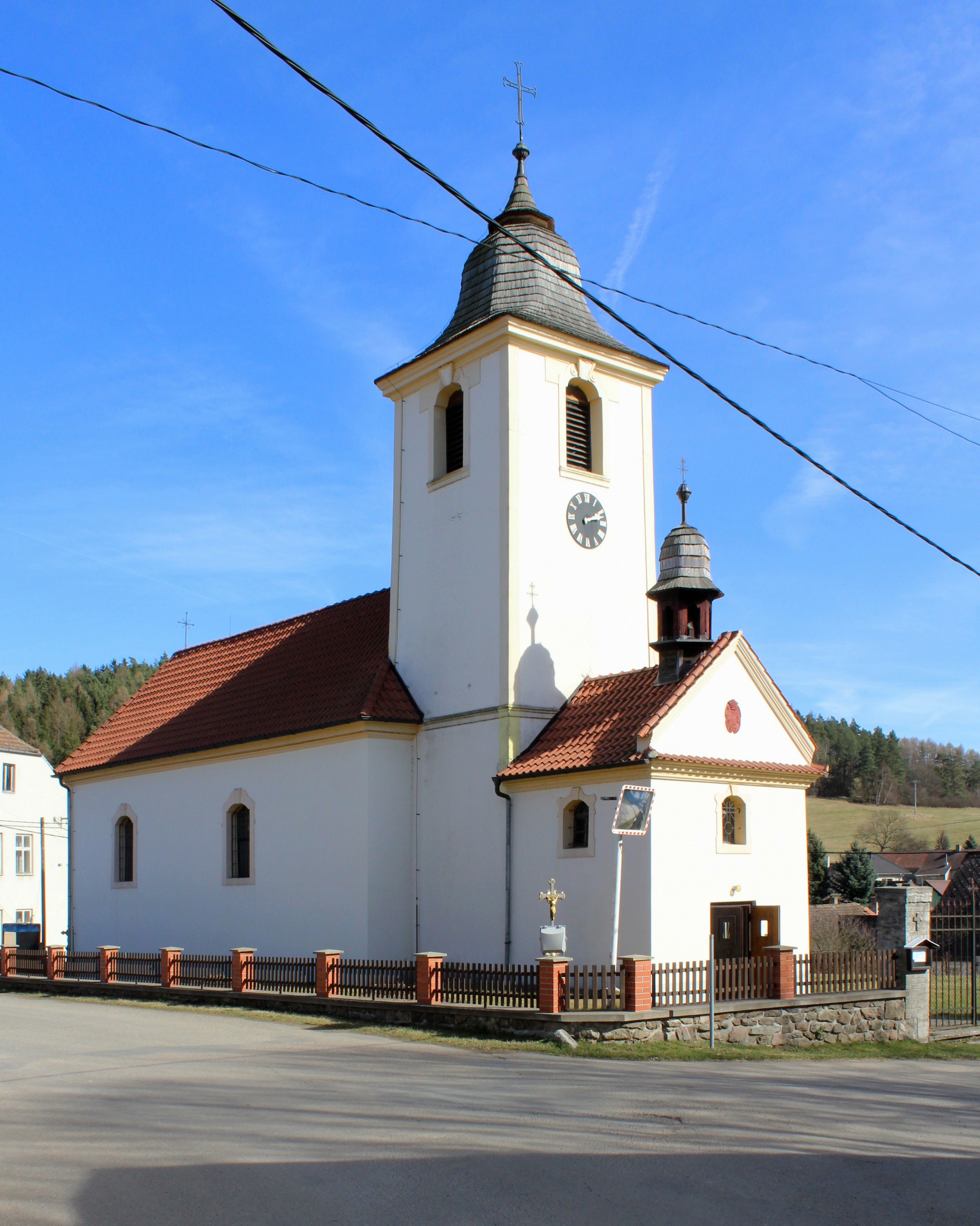 Church of Saint James the Greater (Popovice)